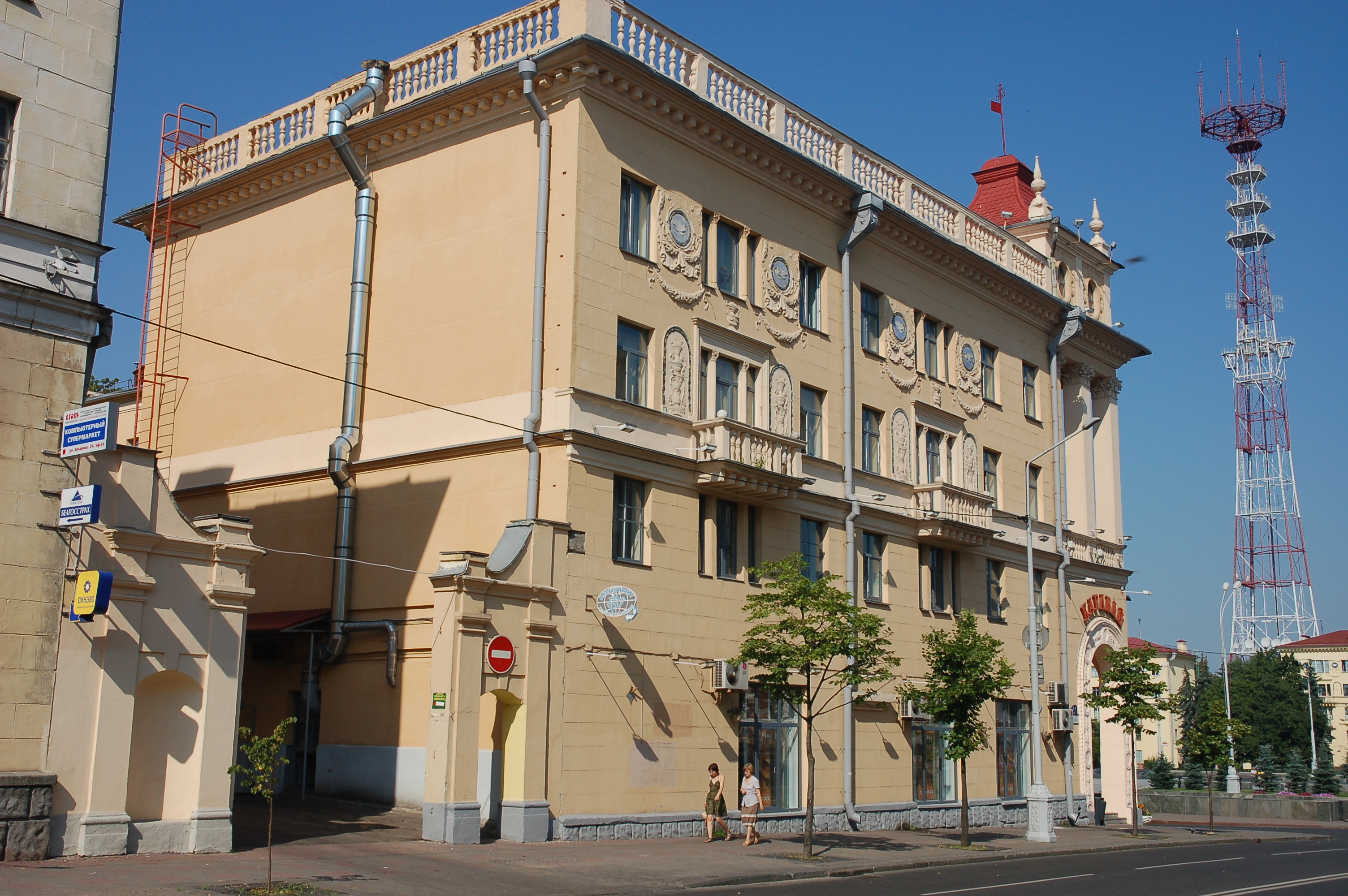 Minsk Zakharava 22 - Niezalezhnas'ci 38